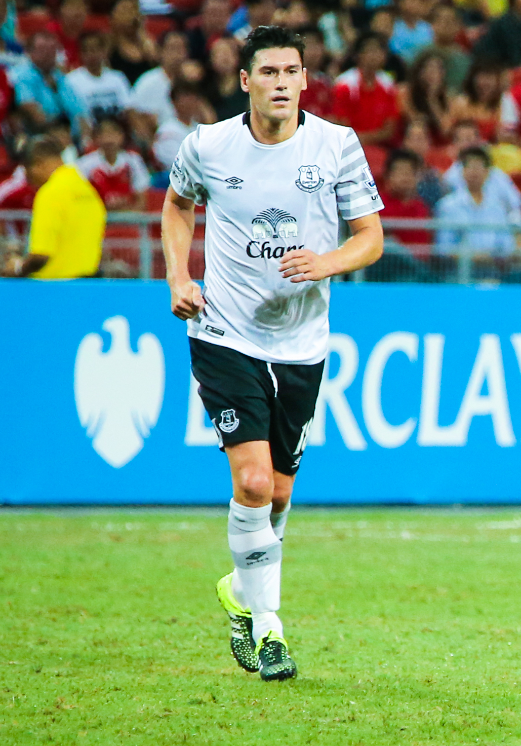 Barclays Asia Trophy 2015